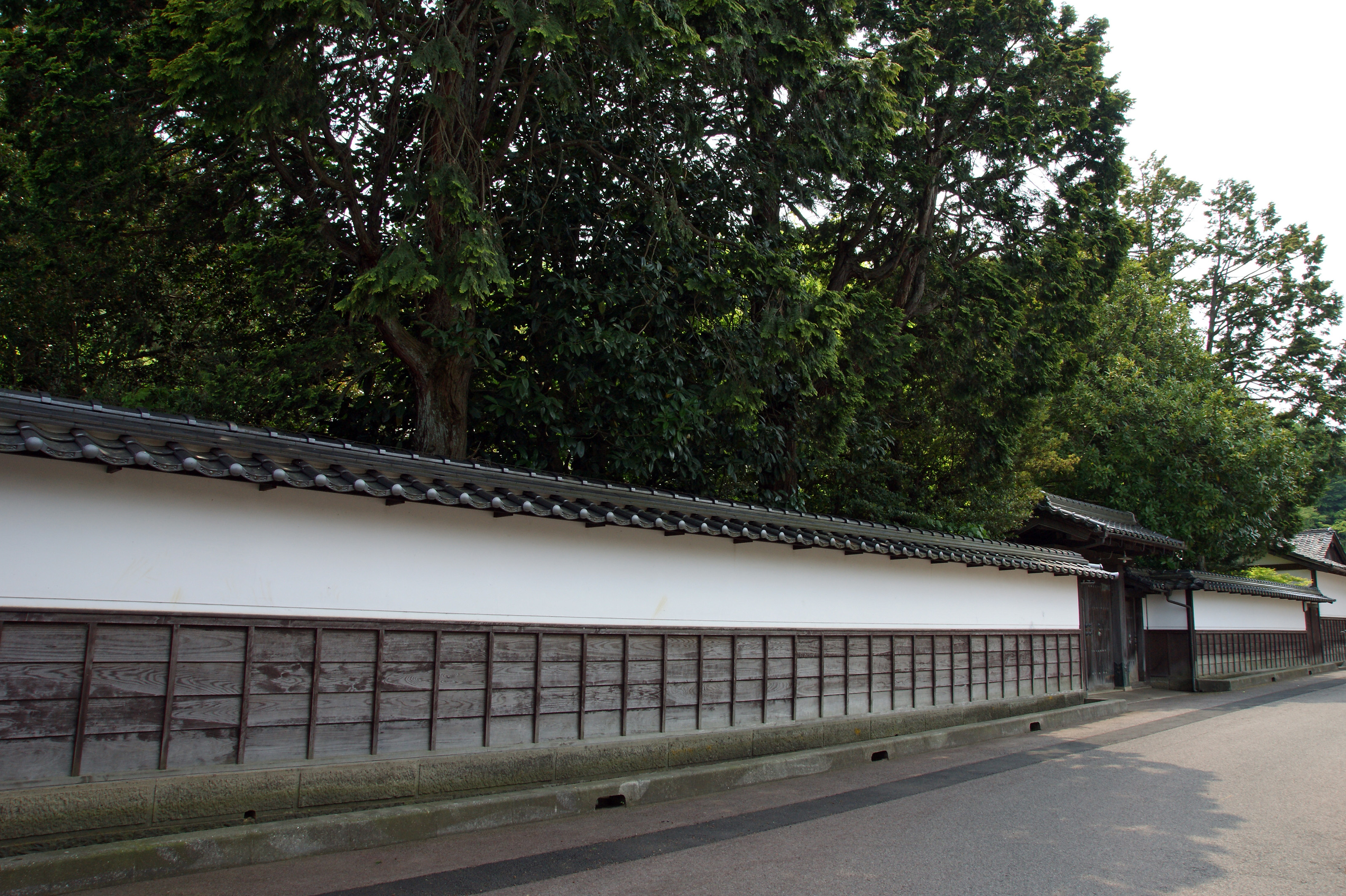 Kyogoku Residence in Toyooka, Hyogo prefecture, Japan